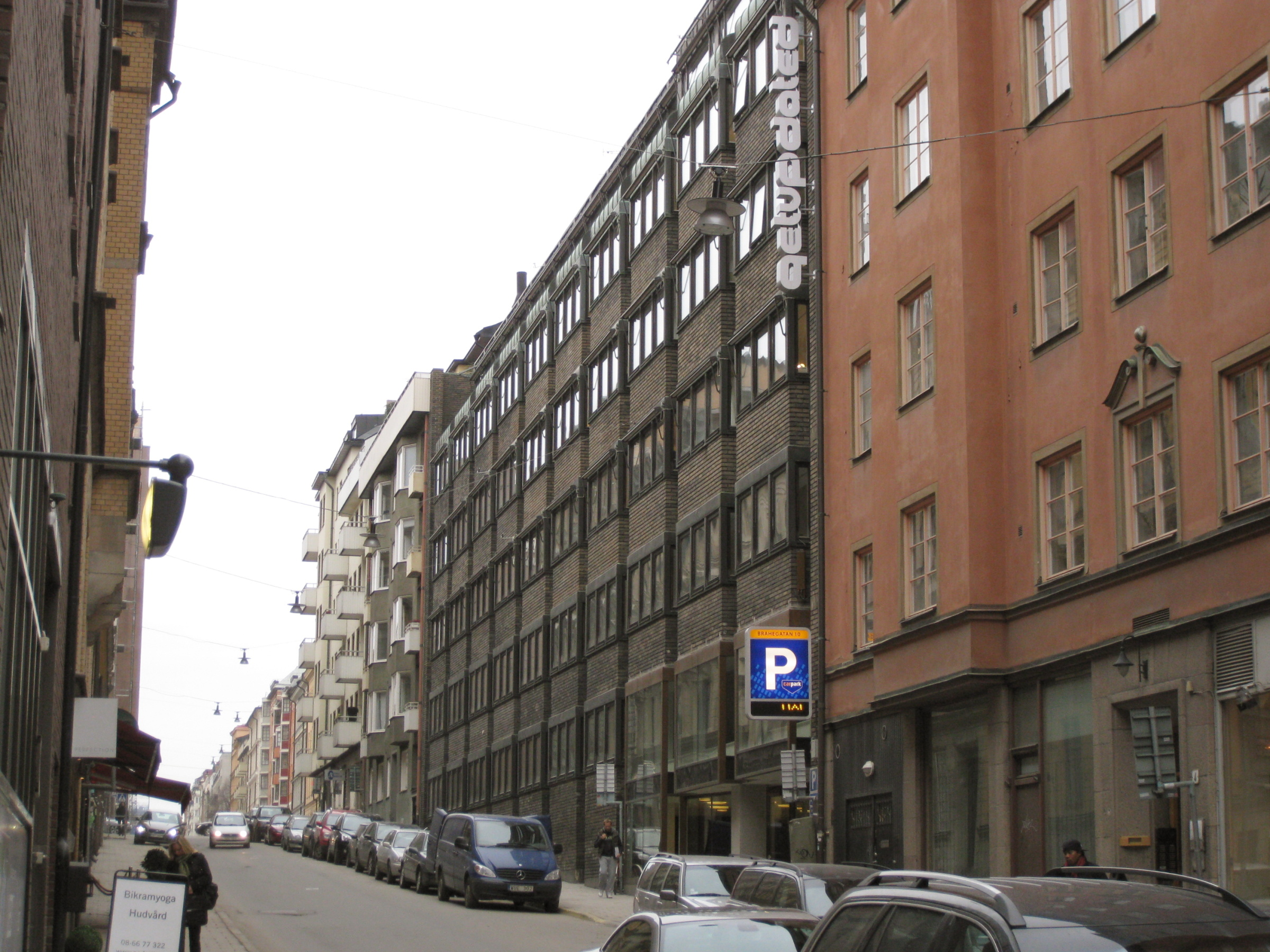 Beckmans School of Design, Stockholm, Sweden